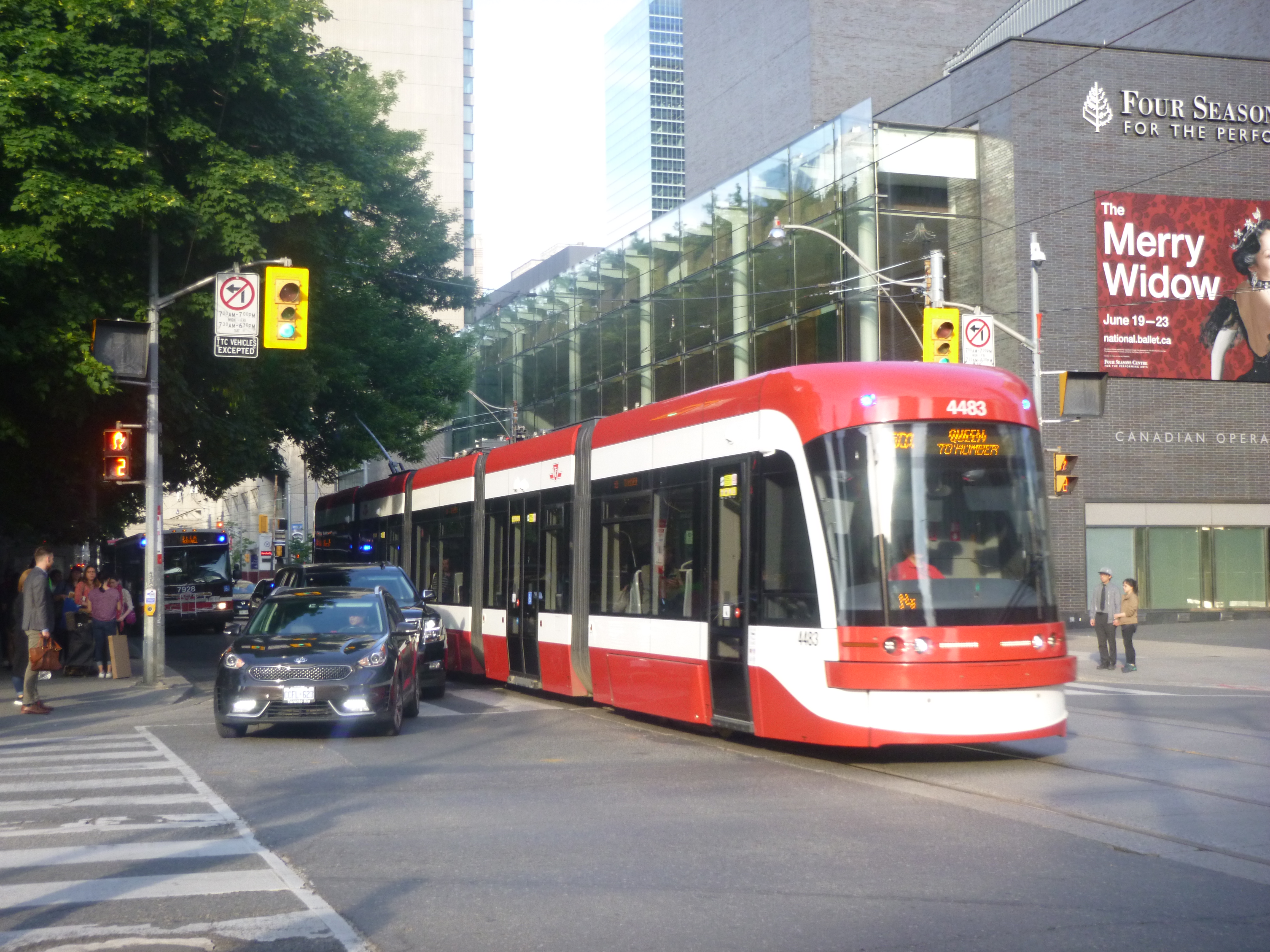 This is one of the Bombardier Transportation Flexity Outlook low-floor accessible streetcars for the Toronto Transit Commission, seen here is car #4483 at Queen and University (just outside of Osgoode station) on June 24, 2019, heading westbound on route 501 Queen towards Humber Loop.